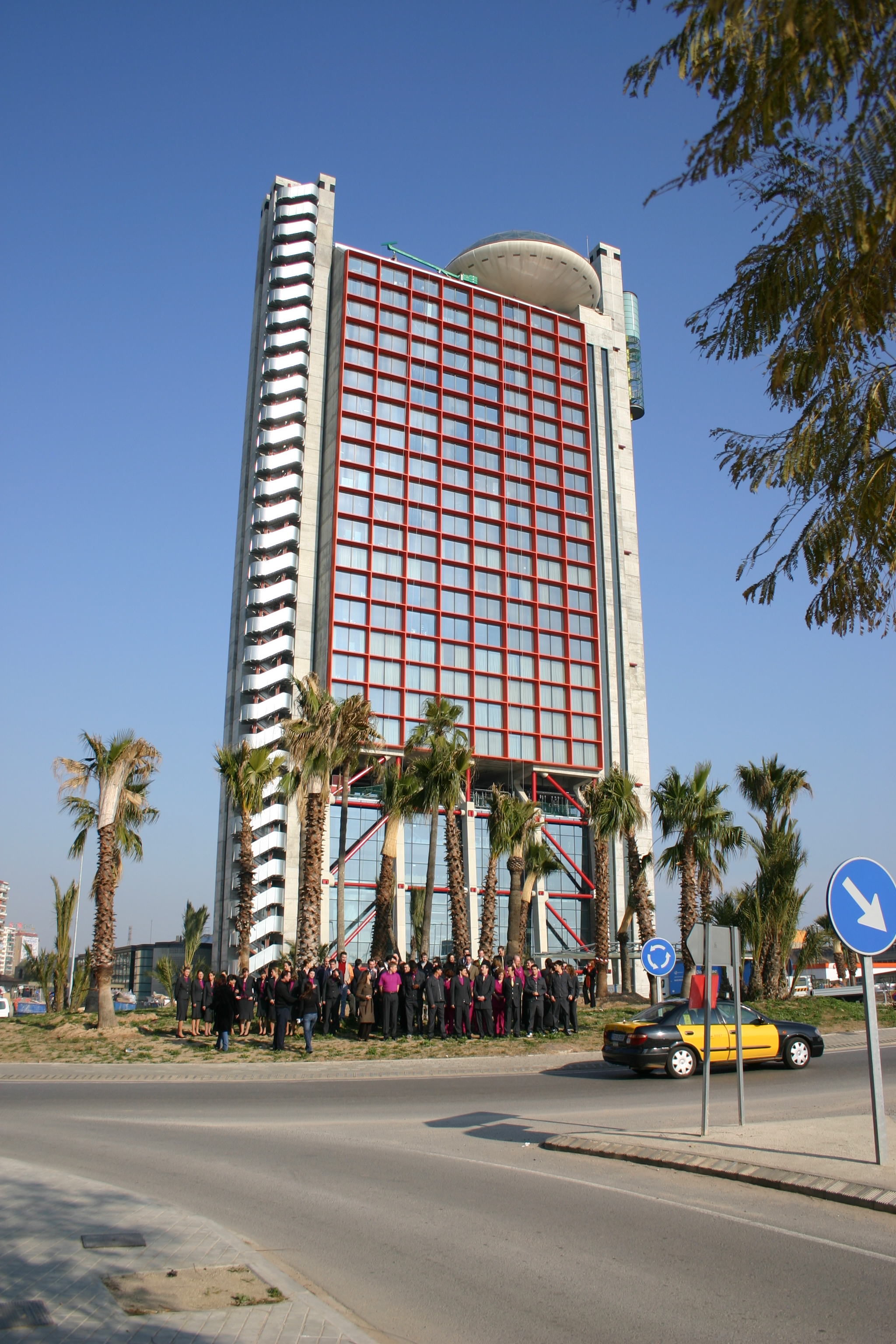 Hotel Hesperia Author: User:Yearofthedragon Note: There are the staff of the Hotel posinf for a picture (not mine).